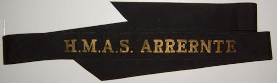 Sailor's cap tally reading HMAS ARRERNTE. This sailor's cap tally was for the variant spelling ARRERNTE for the name of the Royal Australian Navy ship, HMAS Arunta (FFH_151). The cap tally dates from about 1995-6.